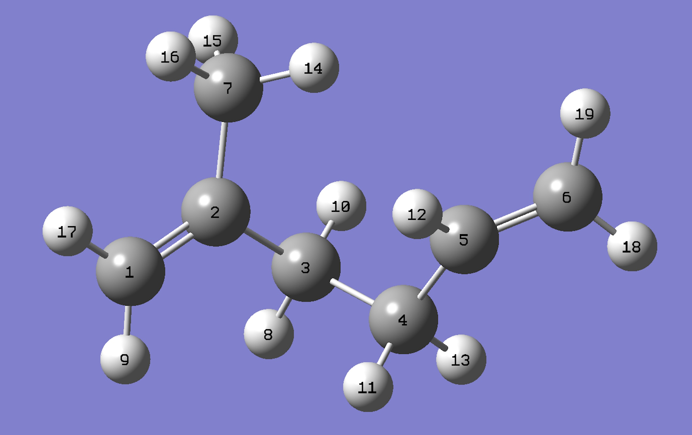 A backbone unit is the 4-carbon chain consisting of atoms 1–4. In a chain, H atoms 17 and 18 would be replaced by C atoms of adjacent units.